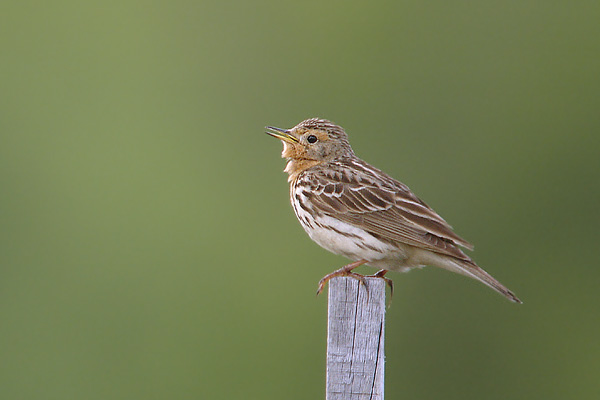 Red-throated pipit (Anthus cervinus) photographed in Lappland, Sweden